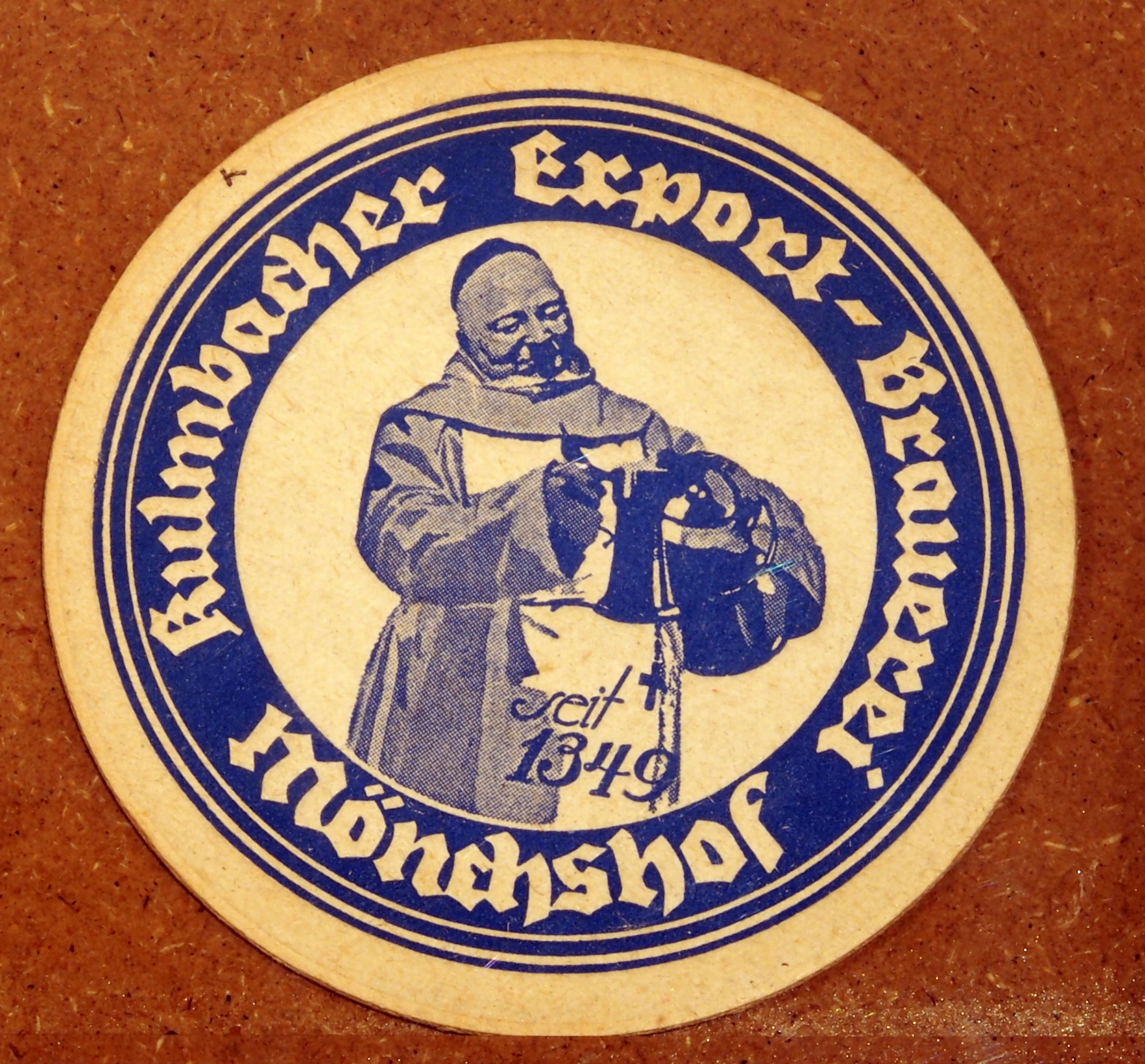 Kulmbacher Export-Brauerei Mönchshof. (Photographed through glass.)